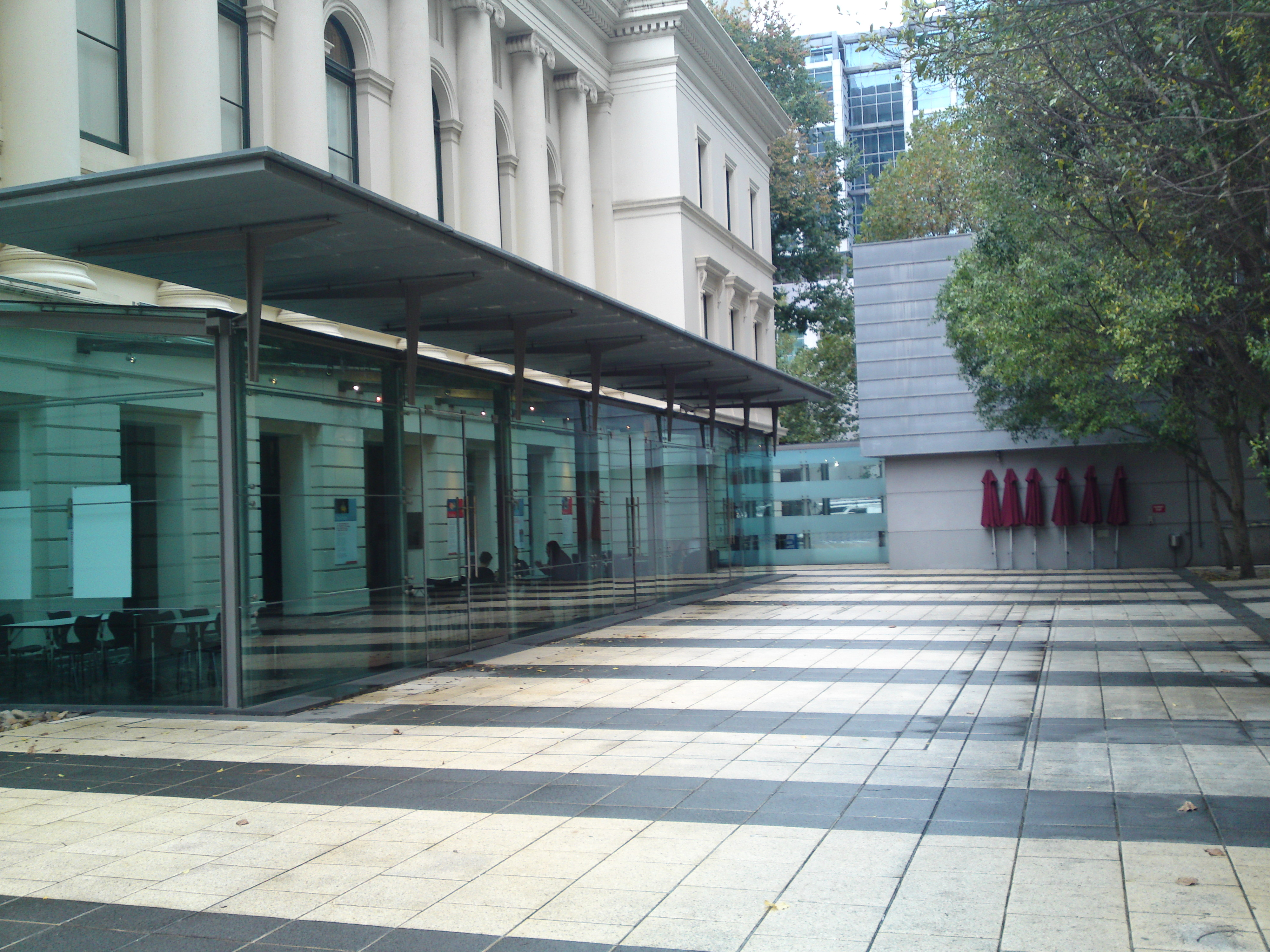 Daryl Jacksons addition to the Immigration museum